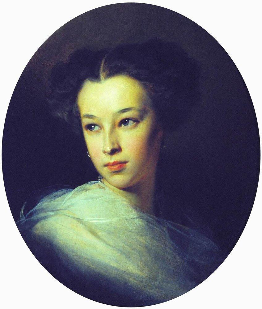 Natalia Alexandrova Pushkina (1836-1913), Countess of Merenberg